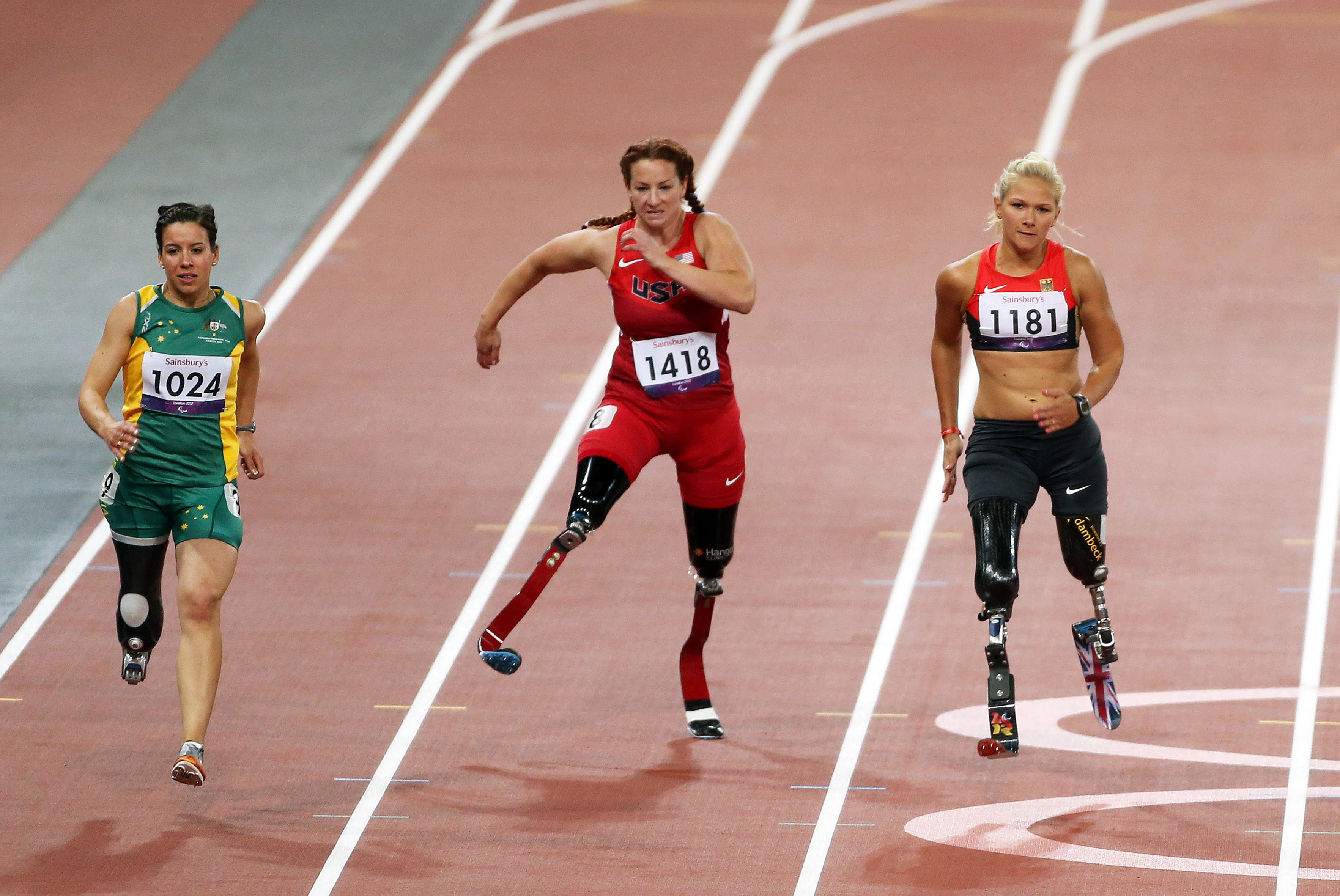 Photograph of Australian Paralympic team member Michelle Errichiello (1024) at the 2012 Summer Paralympic Games in London. Along with Errichiello are the United States' Katy Sullivan (1418) and Germany's Vanessa Low (1181) seen here contesting the final of the Women's 100 metre sprint (T44) on 5th September.